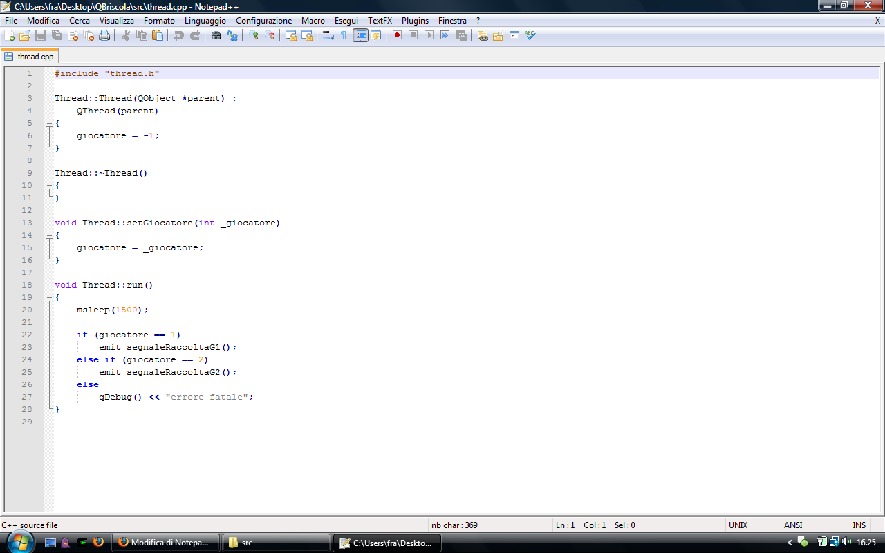 Screenshot of Notepad++ in English